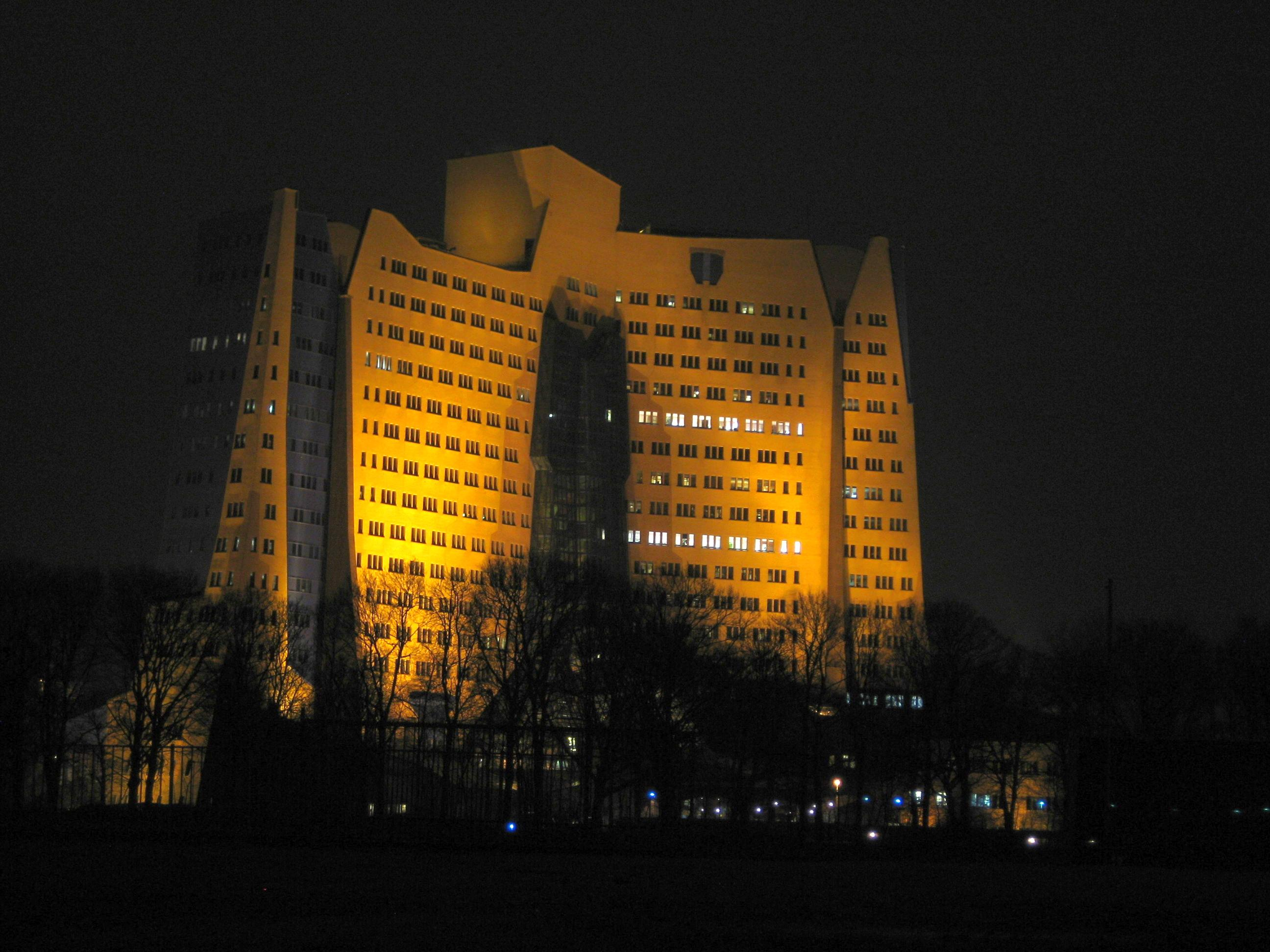 Gasunie Building, Groningen, NL